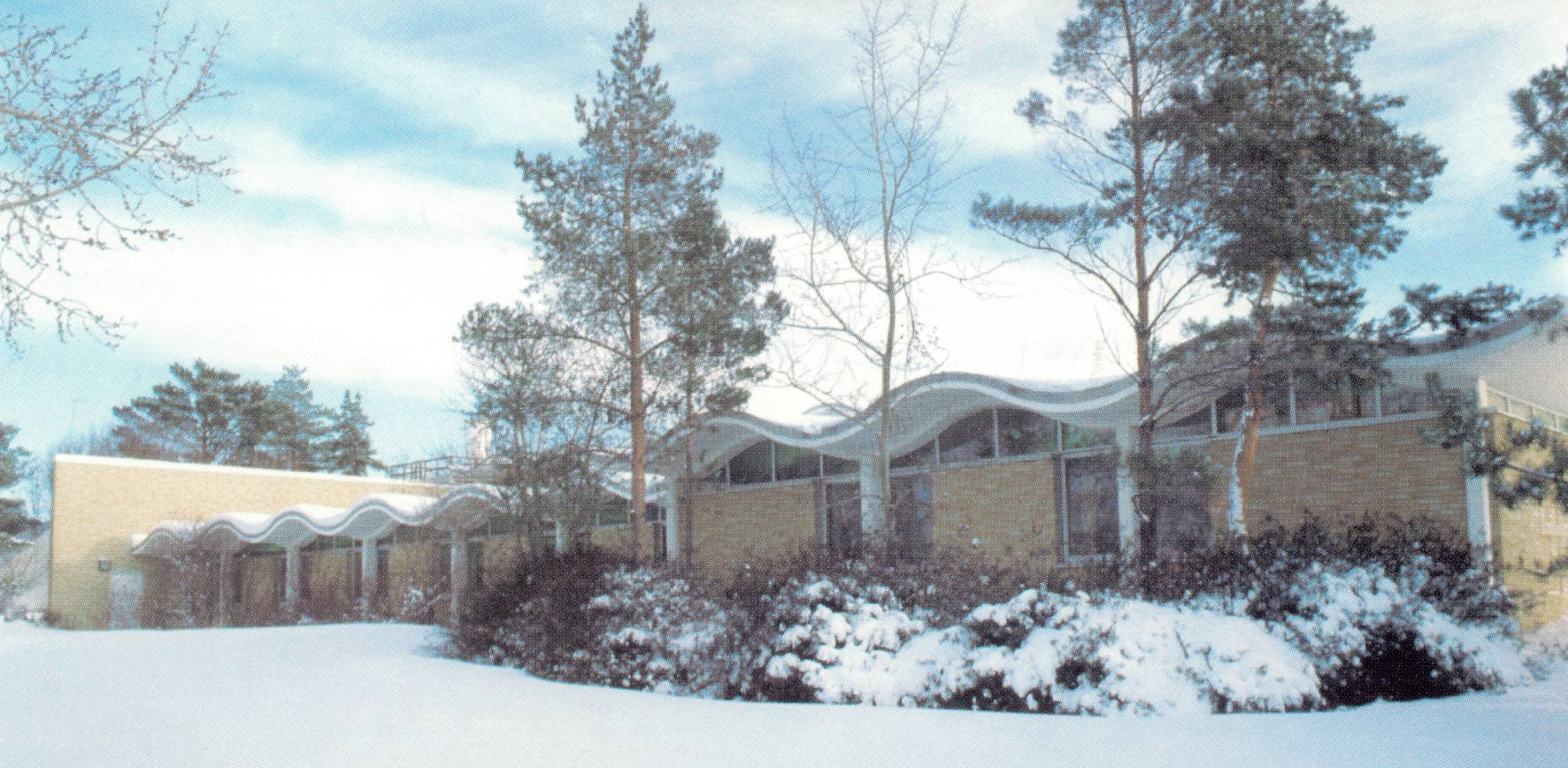 The Saskatchewan Acceleraor Laboratory building in 1994